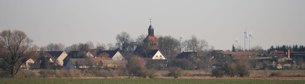 Retzow in Brandenburg, Germany